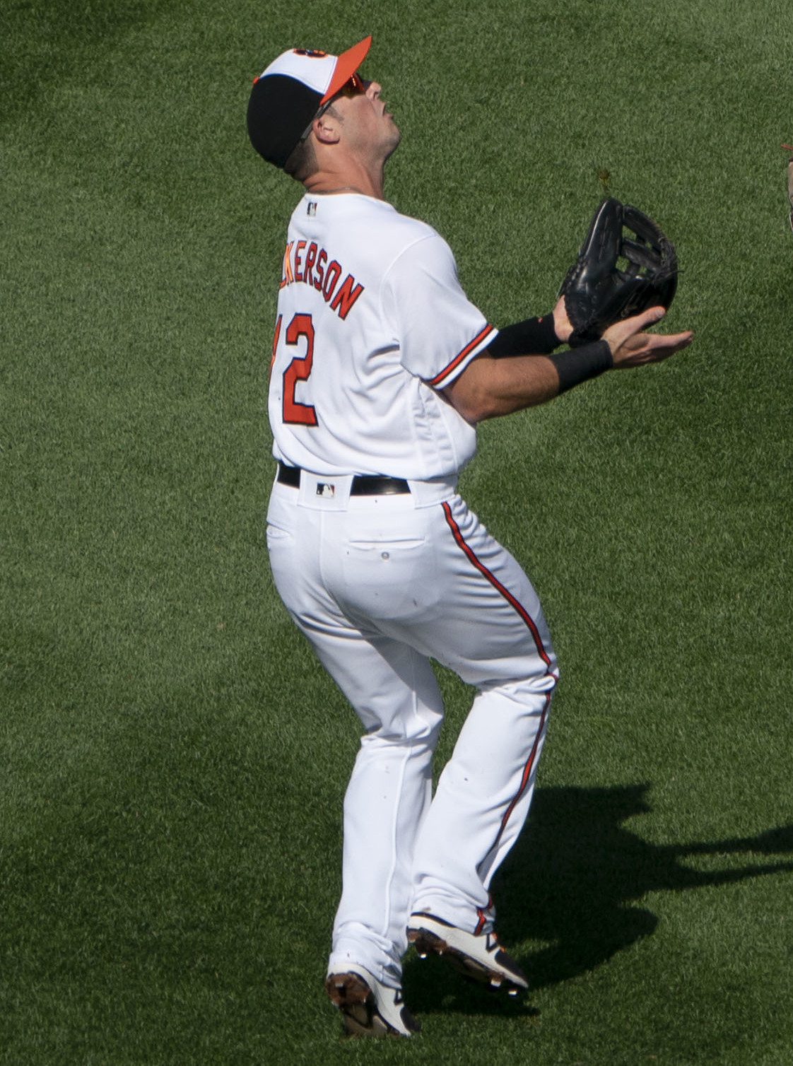 Steve Wilkerson (left) and Cedric Mullins of the Baltimore Orioles attempt to catch a pop-up during a September 2018 game at Camden Yards in Baltimore.